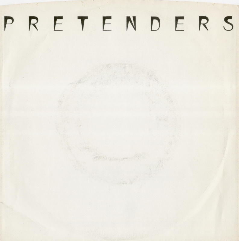 Front picture sleeve of the U.S. vinyl release of "Middle of the Road" by Pretenders